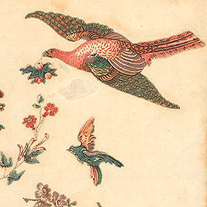 The Rajah Quilt detail. It was created by convict women on board the ship Rajah in 1841. It was given to the governors wife and is now in a museum in Australia. It is part of the National Gallery of Australia’s Australian textiles collection